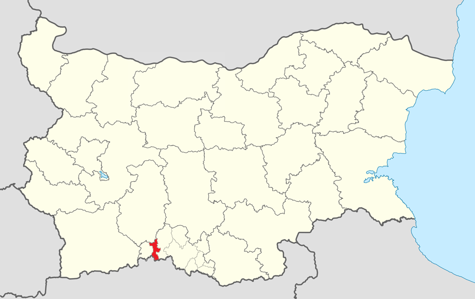 Location map of Borino Municipality within Bulgaria and Smolyan province